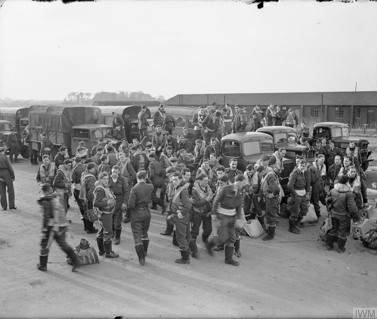 Royal Air Force Bomber Command, 1942-1945. Following their briefing, Handley Page Halifax crews of No. 76 Squadron RAF board their transports at Holme-on-Spalding-Moor, Yorkshire, to be driven to their dispersals in preparation for a raid on Kassel, Germany. This raid, on 22/23 October 1943, was the most devastating delivered on a German city since the 'firestorm' raid on Hamburg in the previous July. Of the 569 aircraft used in the attack, 43 were lost, of which 25 were Halifaxes.